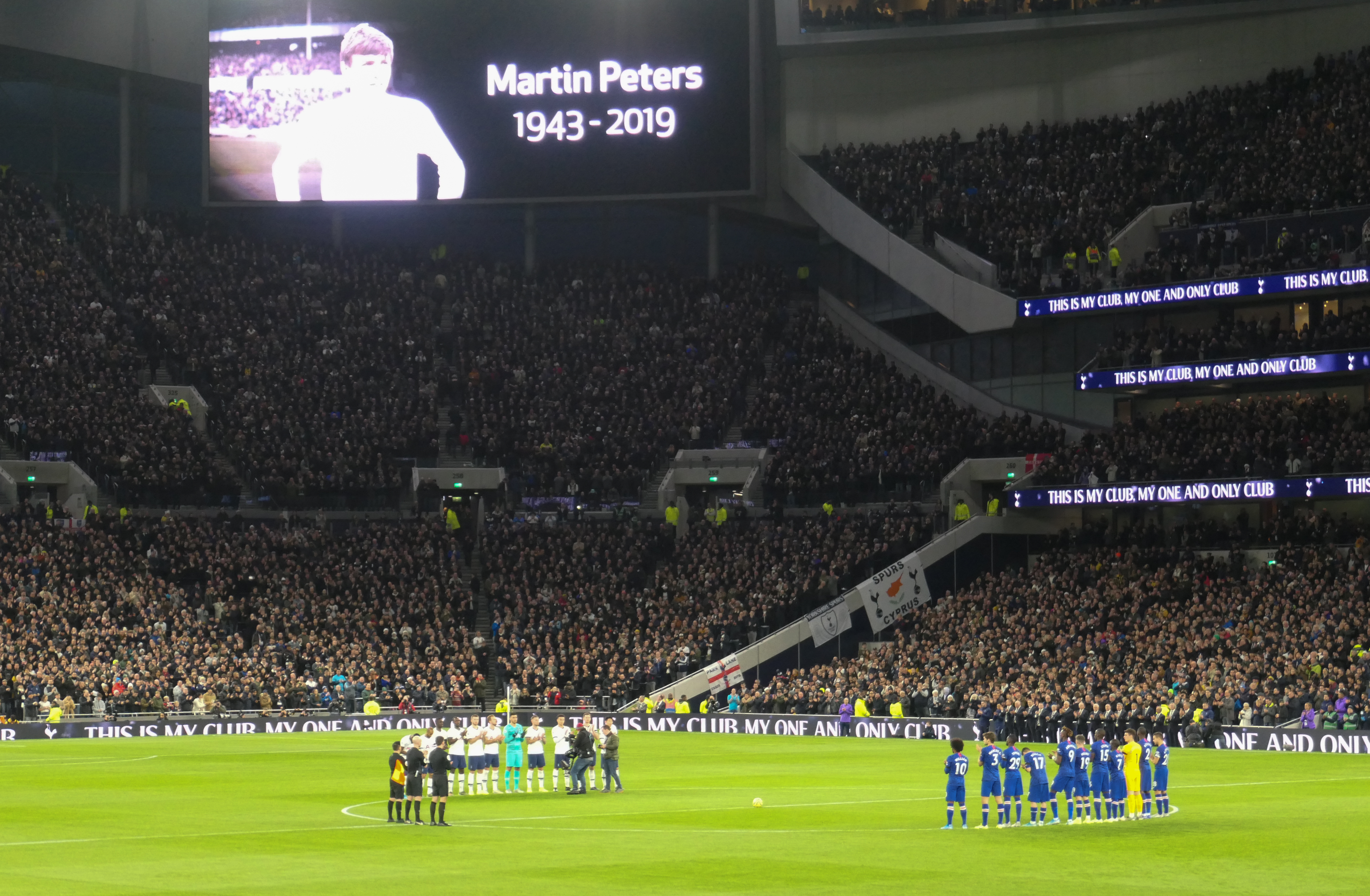 A tribute to Martin Peters before the Tottenham v Chelsea game held on 22 December 2019 at Tottenham Hotspur Stadium